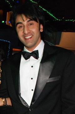 Indian actor Ranbir Kapoor